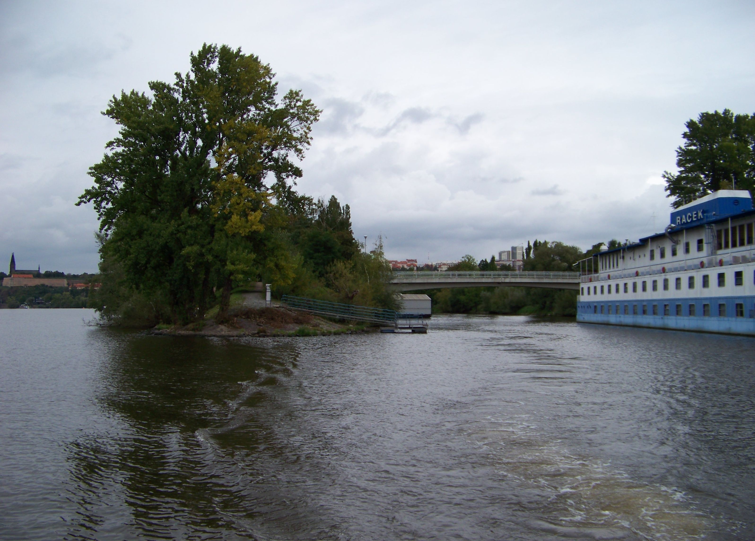 Prague-Podolí, Czech Republic. Veslařský ostrov, seen from the Vltava ferry P3 boat Josefína.